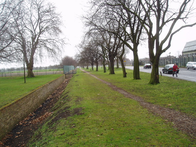 The Green Chain Walk, alongside Haha Road, London SE 18. Photography in this grid square is not easy in view of the large number of military installations, where personnel are understandably reluctant to permit it. But this quiet section of the Green Chain walk could cause no one any offence. The eponymous haha can be seen to the left of the path.